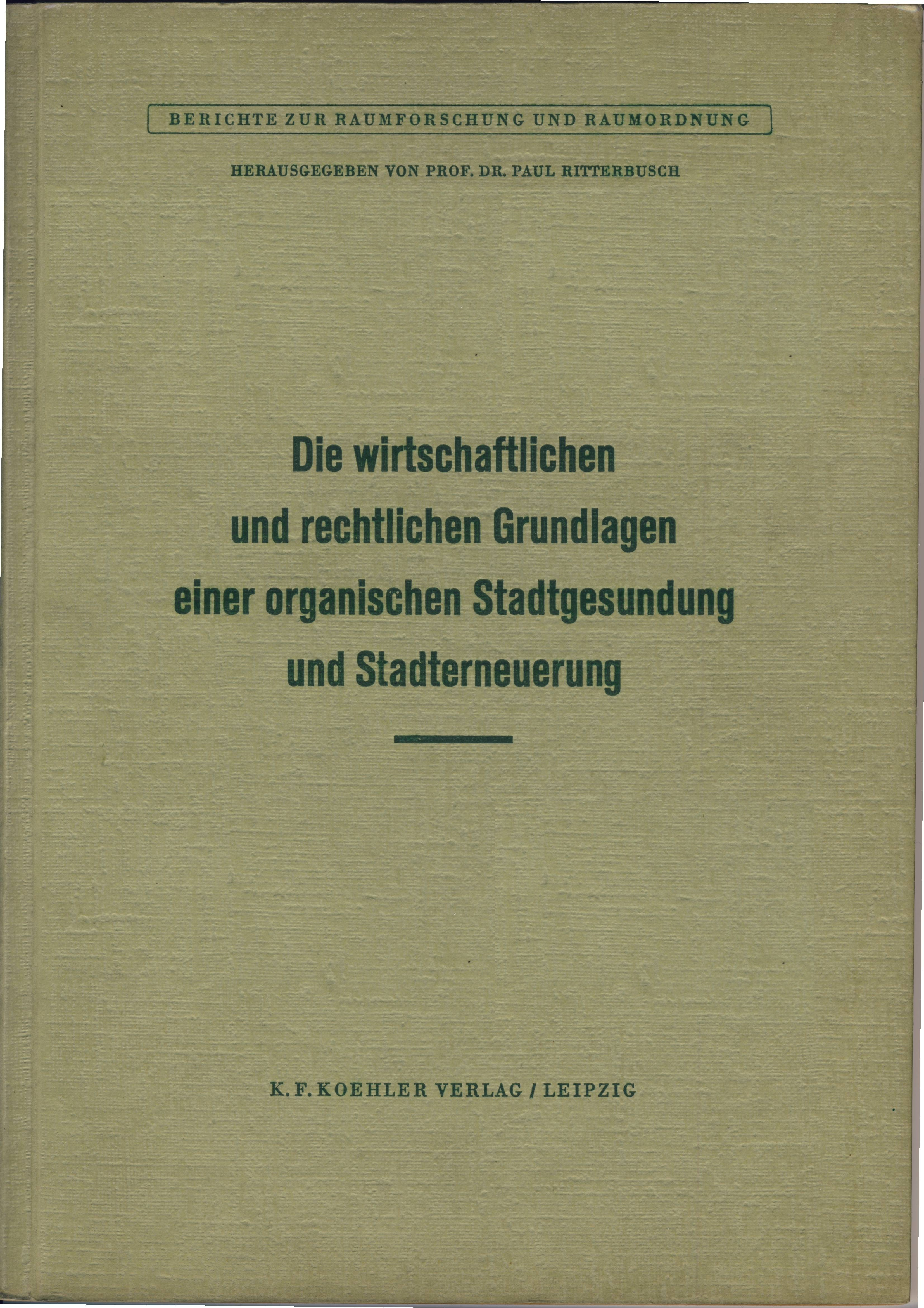 Cover: Paul Ritterbusch: Die wirtschaftlichen und rechtlichen Grundlagen einer organischen Stadtgesundung und Stadterneuerung. Leipzig 1943